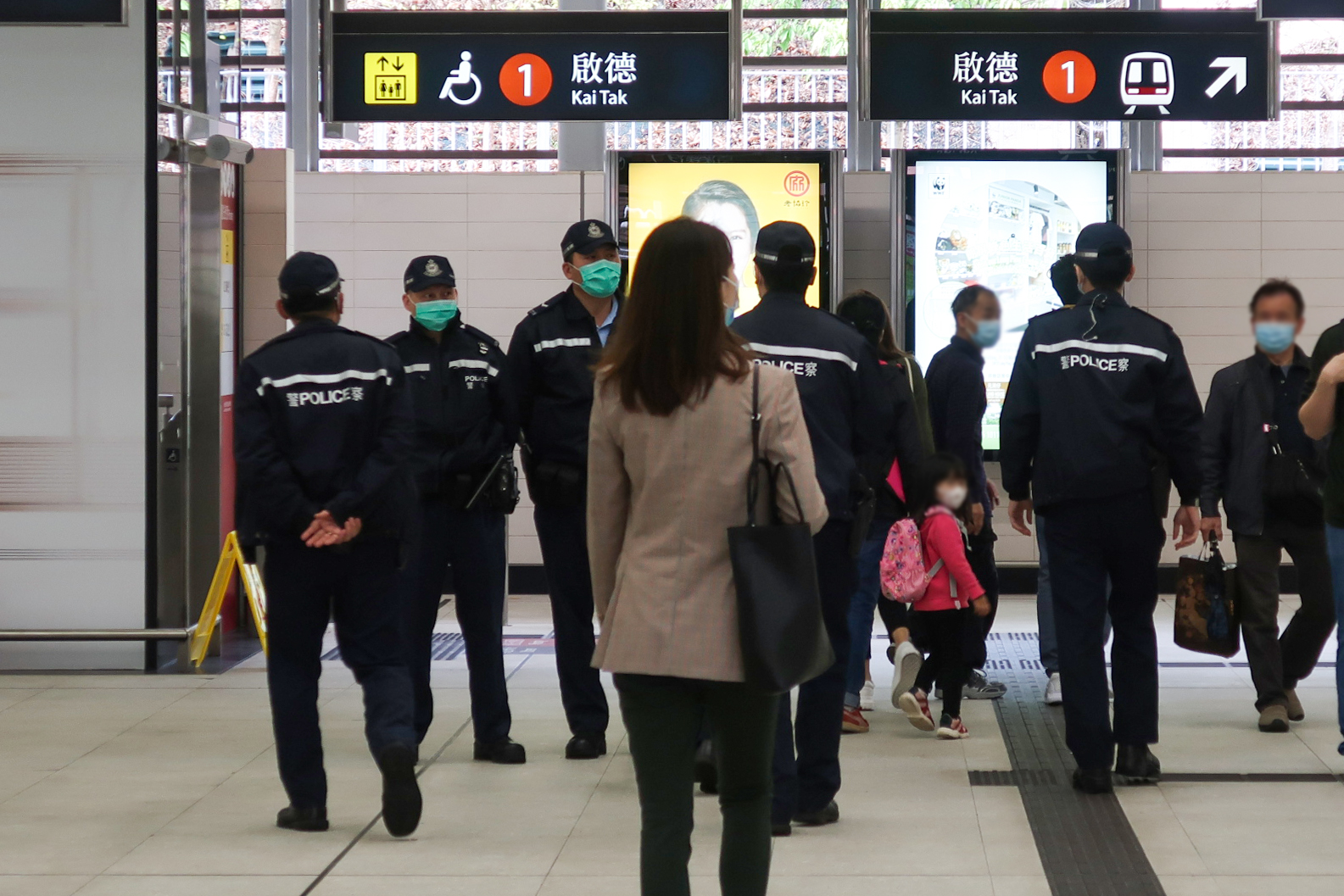 Police inside Hin Keng Station